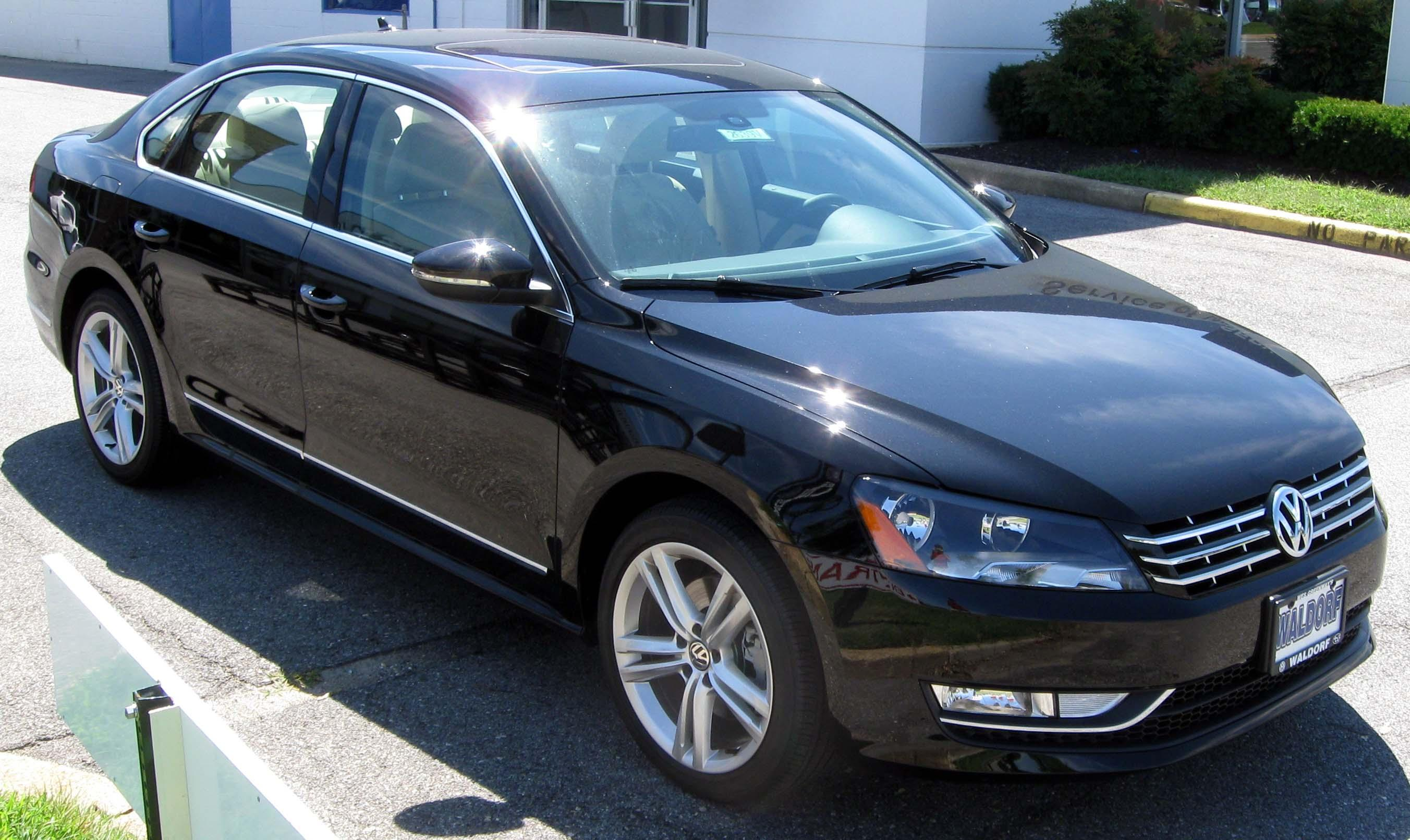 2012 Volkswagen Passat photographed in Waldorf, Maryland, USA.